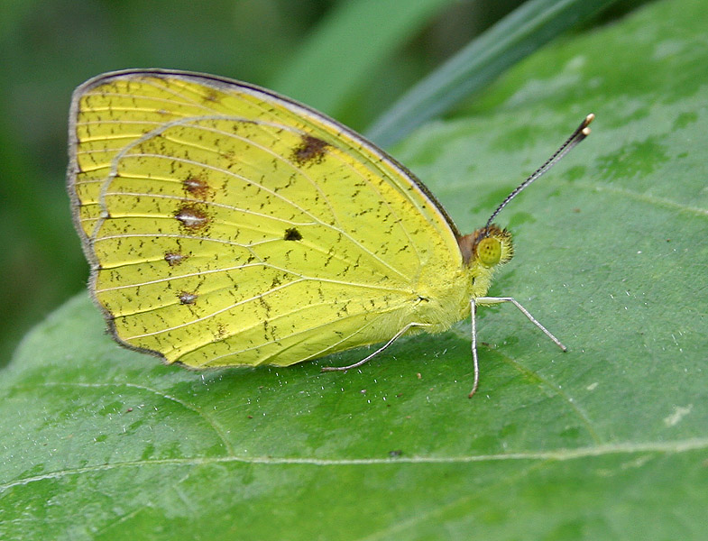 Yellow Orange Tip Ixias pyrene in Hyderabad , India.